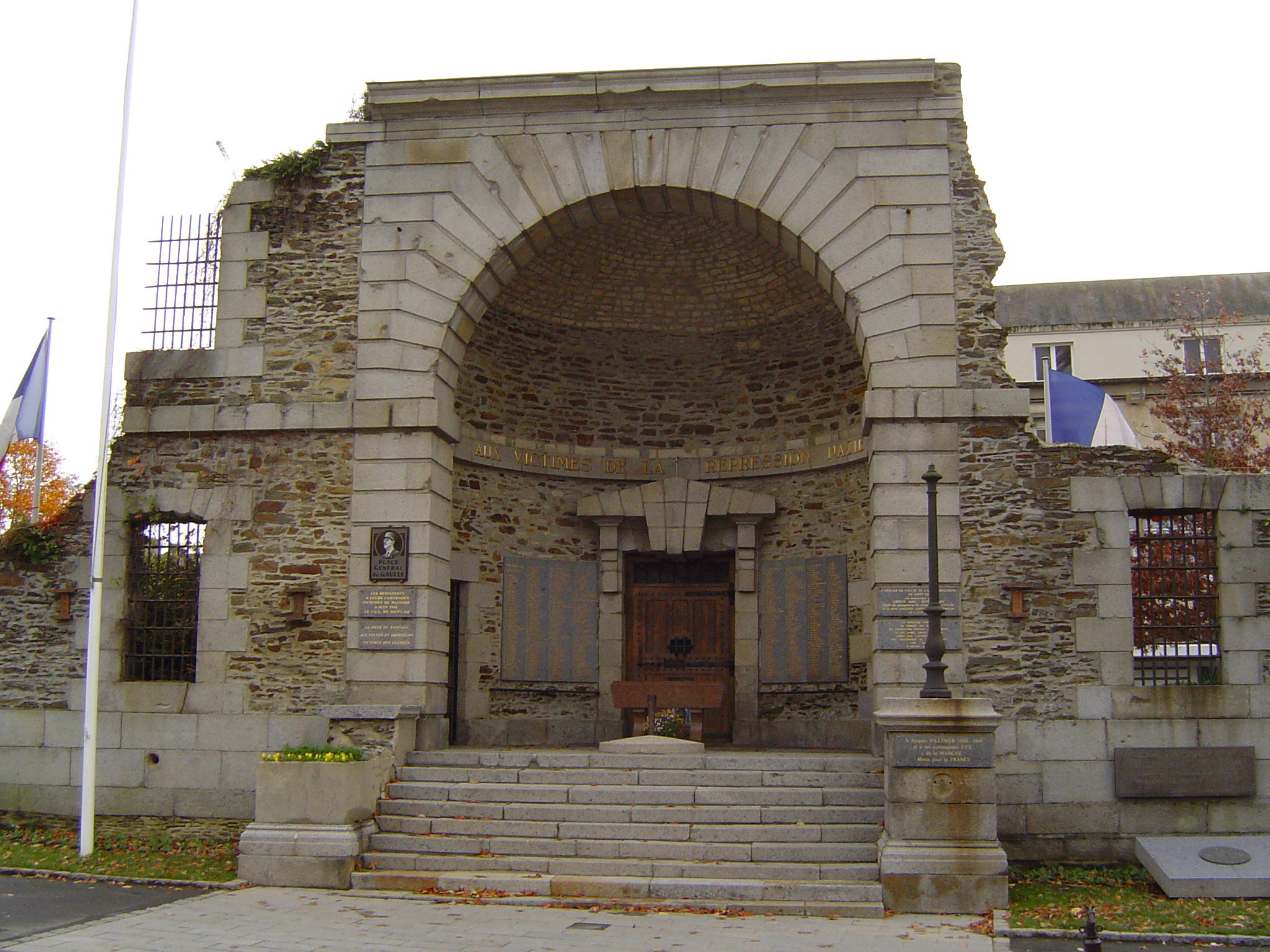 a old prision